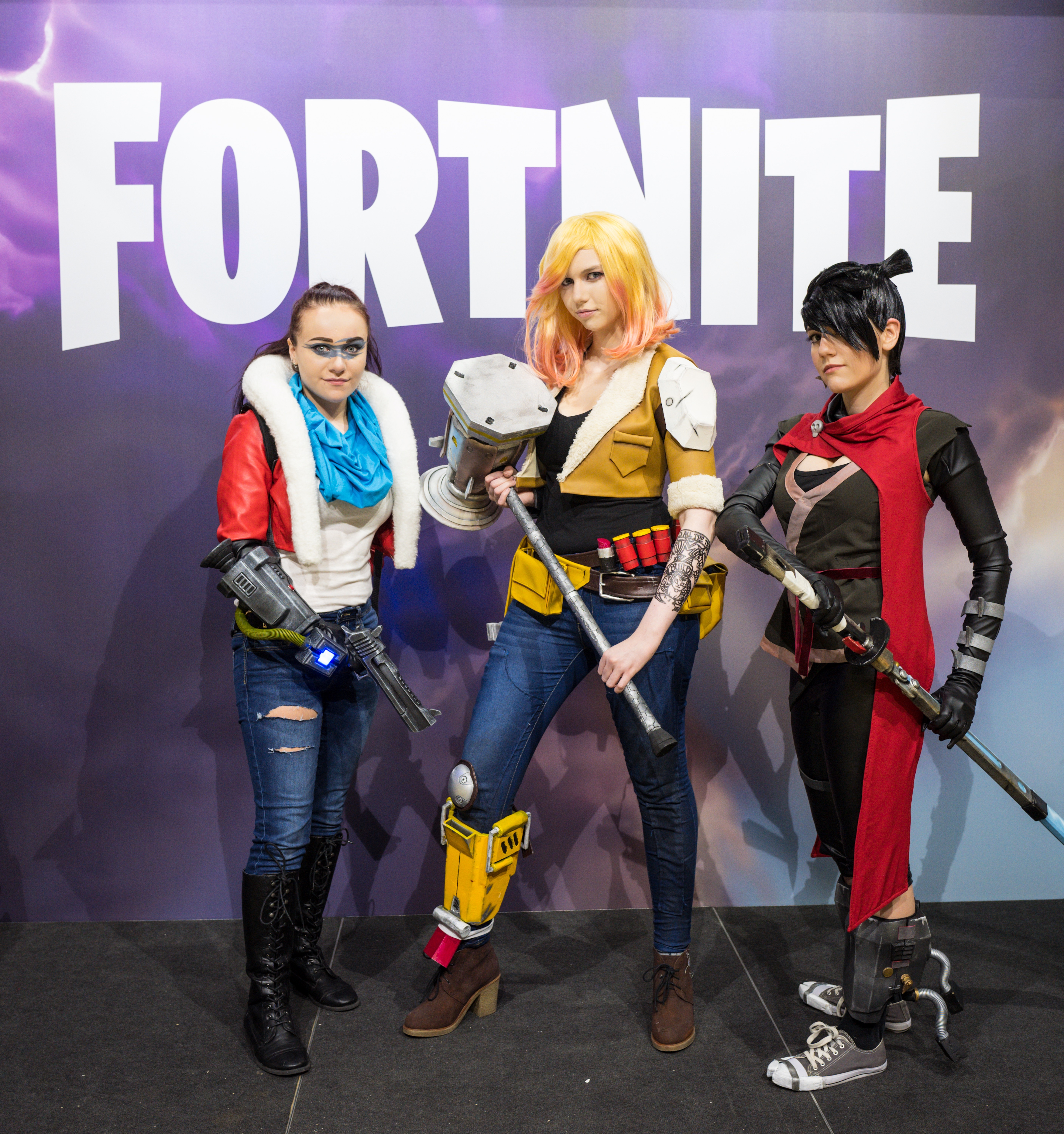 Fortnite cosplayers at Gamescom 2017